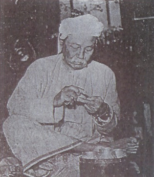 Thakhin Kodaw Hmaing